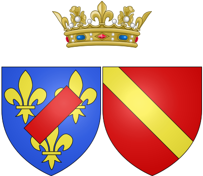 Coat of arms of Marie Victoire de Noailles as Countess of Toulouse